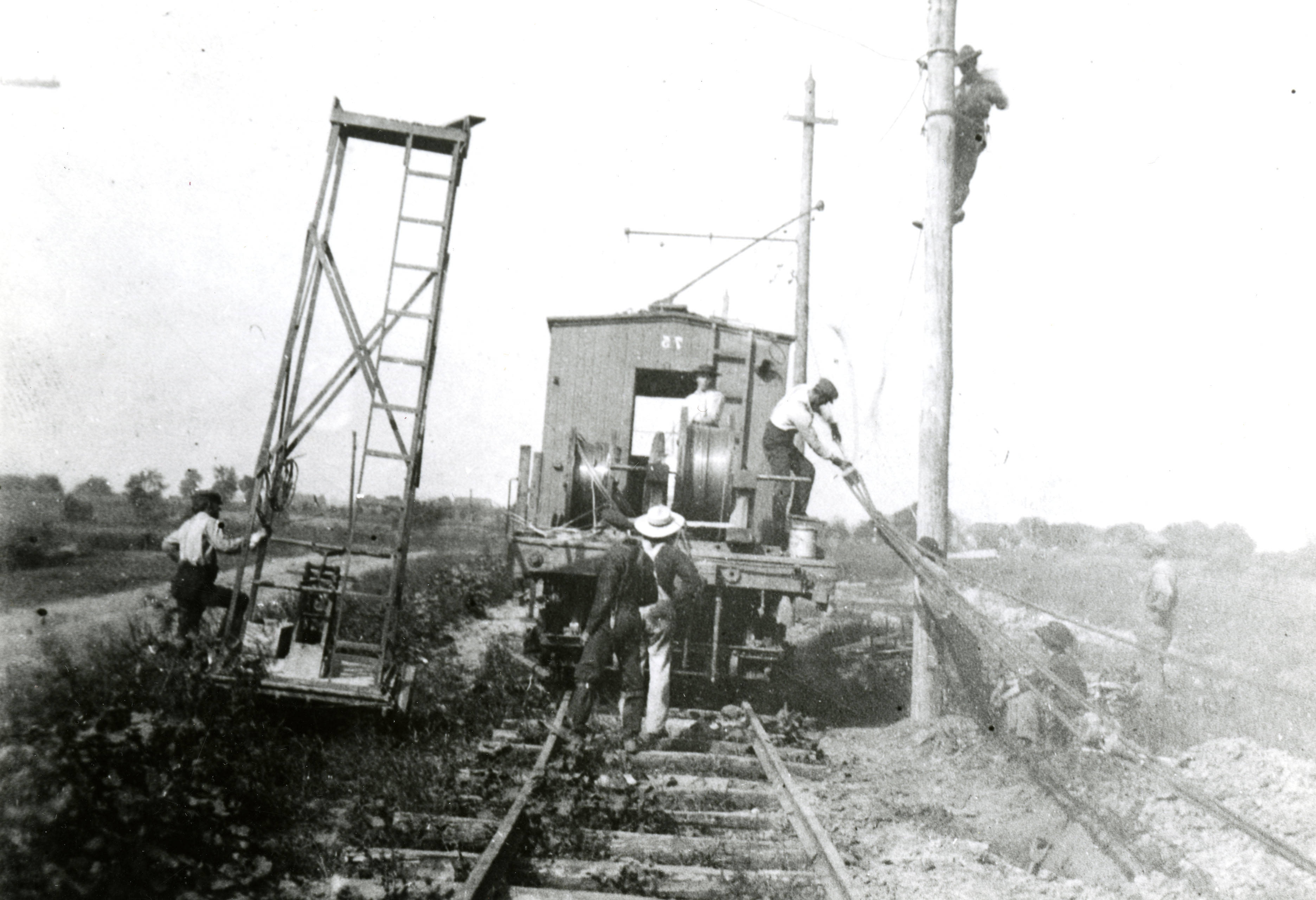 This black and white photograph shows construction workers raising power lines next to the railroad tracks of the Toledo, Port Clinton, Lakeside Railroad tracks in a rural area. The workers are using a railroad car as their vehicle to carry supplies and themselves down the line. It was taken in approximately 1920.